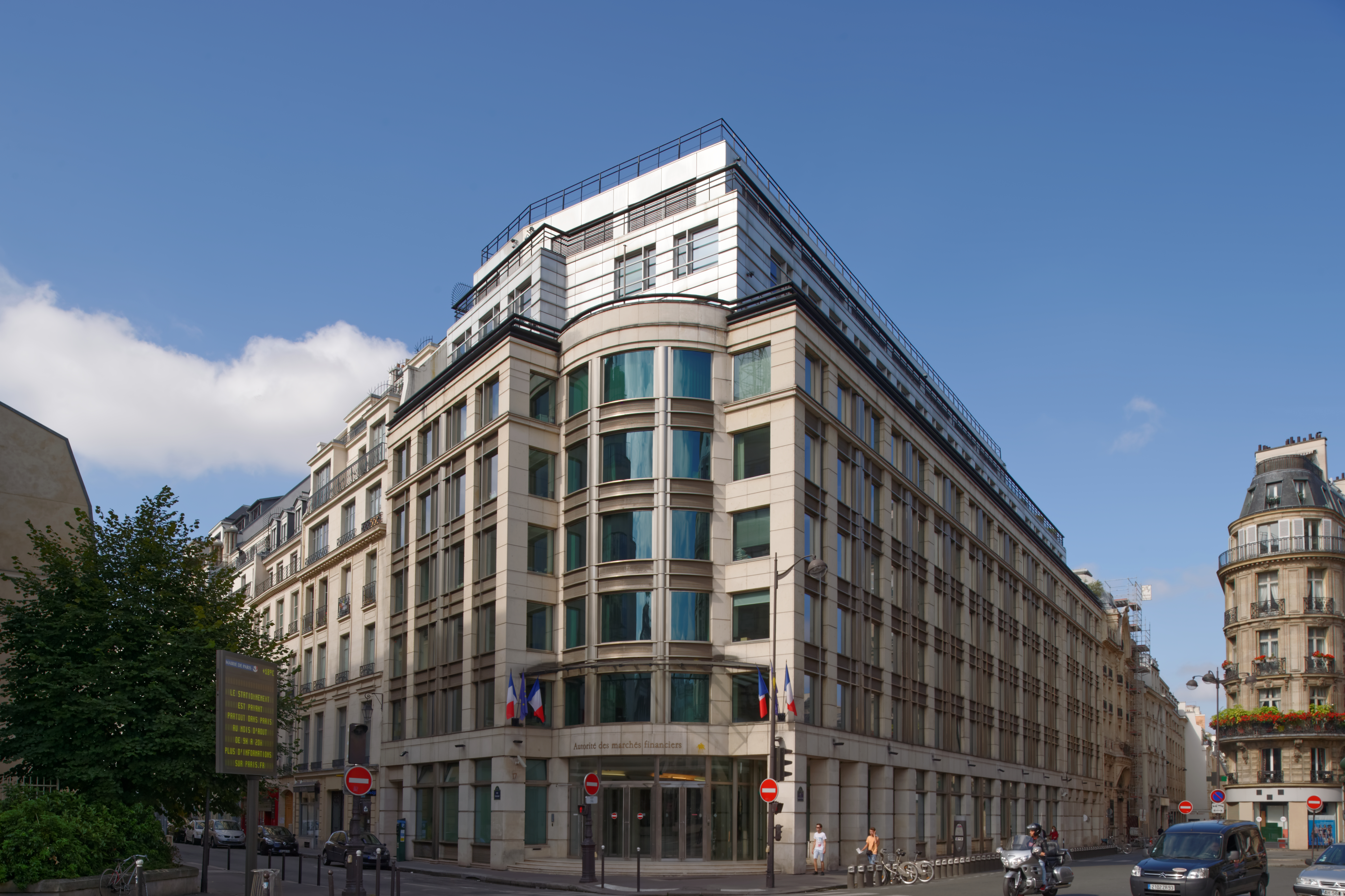 Autorité des marchés financiers (French financial market regulator), place de la Bourse, Paris, France